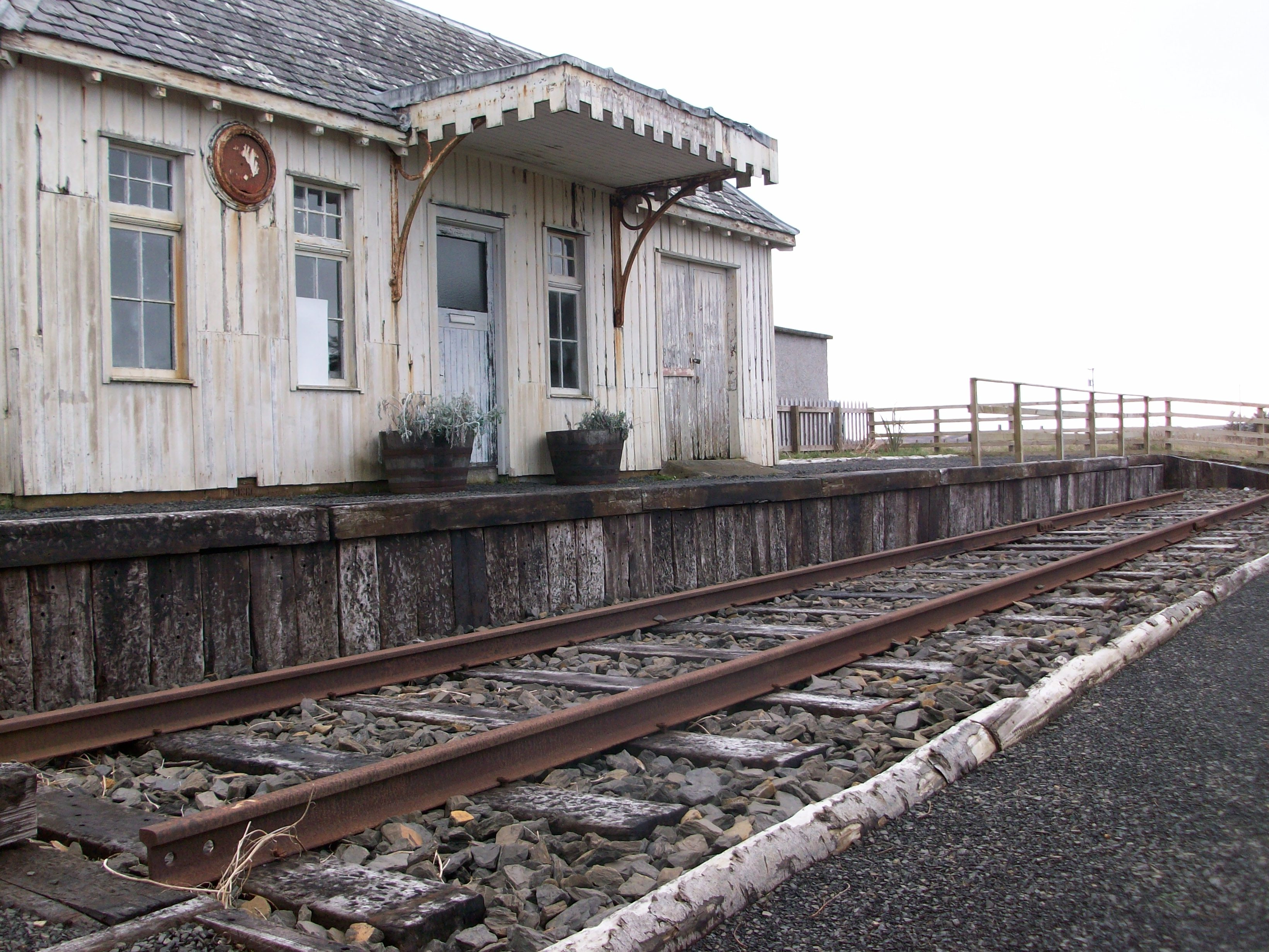 Outside shot of Thrumster Railway station. A preserved station on the disused Wick & Lybster Railway.